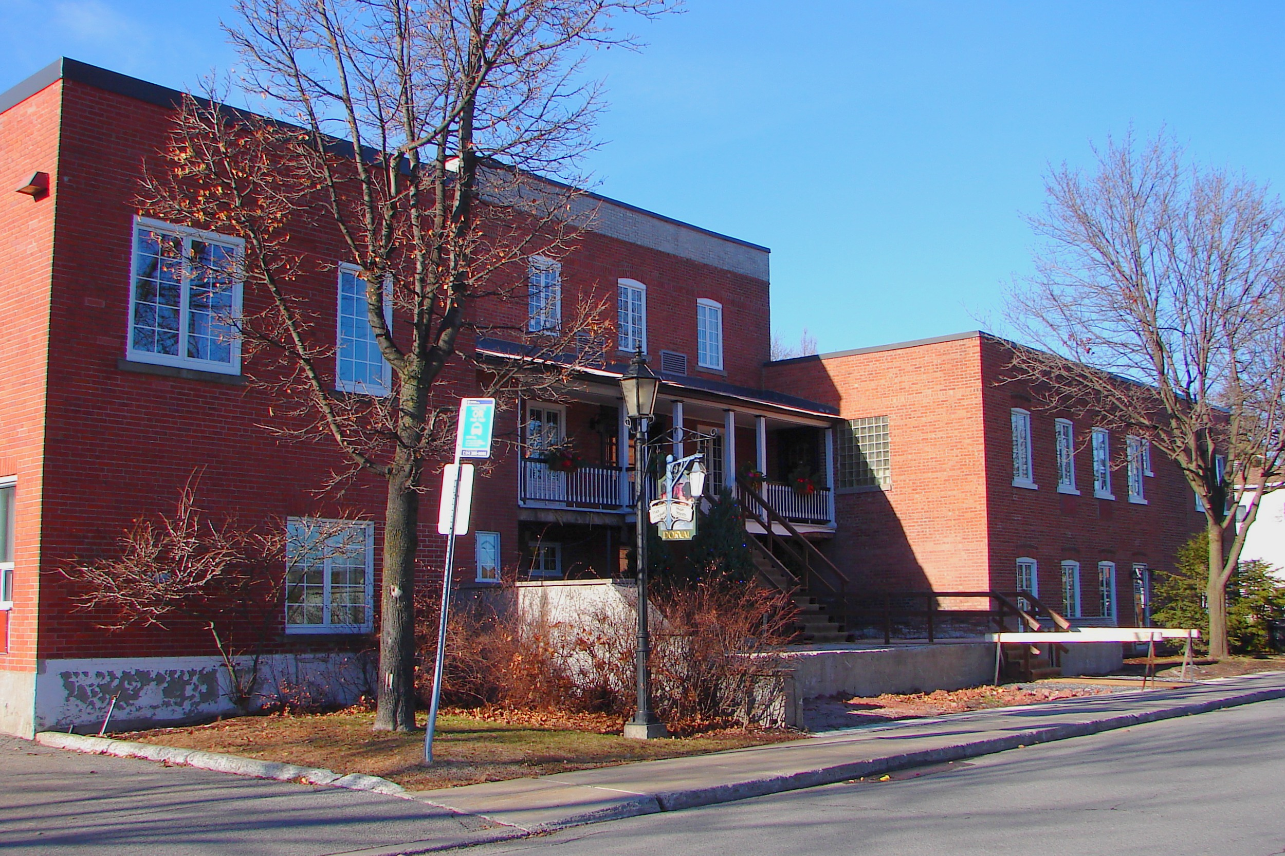 City hall of Dorval, Quebec, Canada